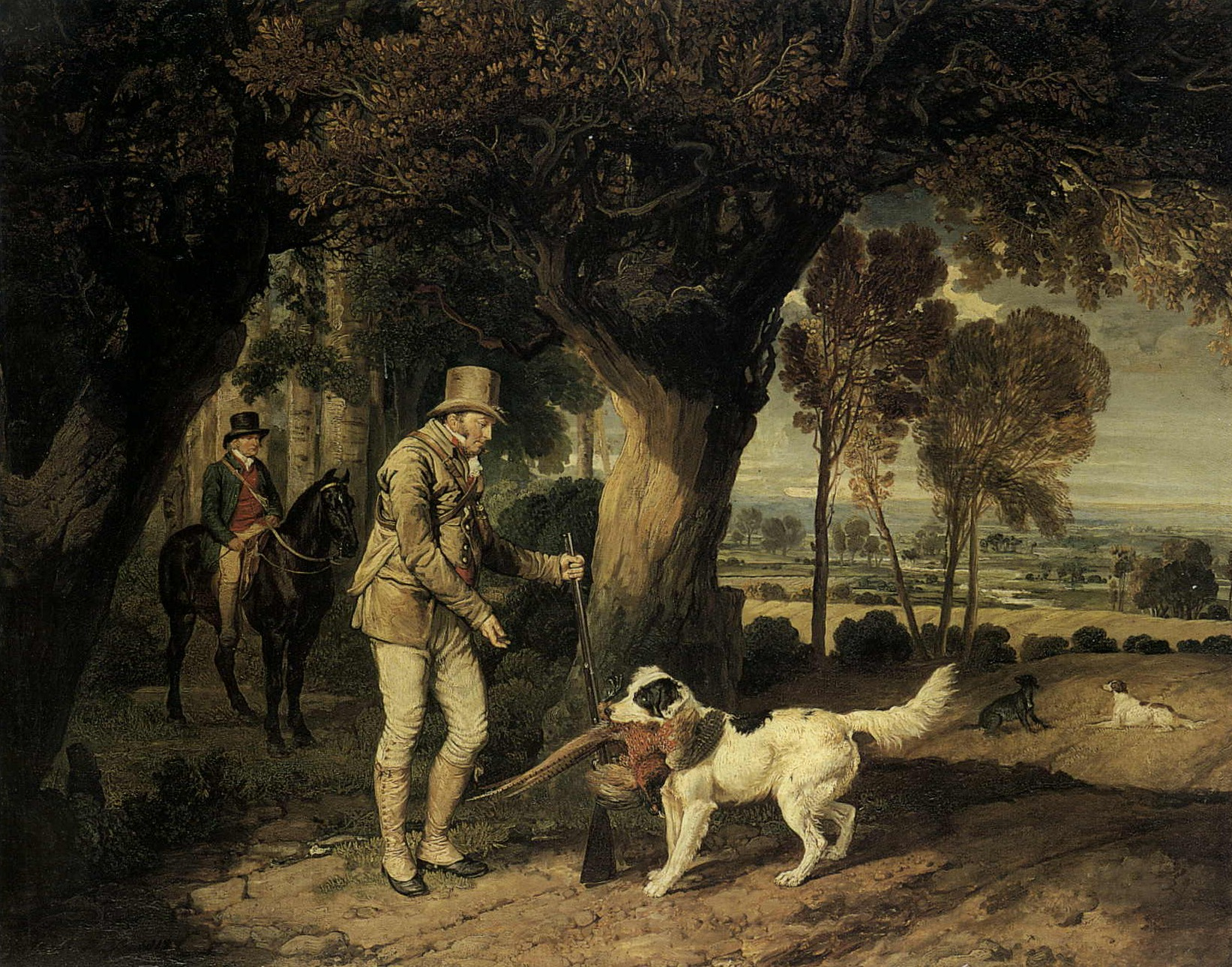 John Levett Receiving Pheasant from Retriever on HIs Estate at Wychnor, 1812. Oil on canvas. James Ward, Royal Academy. Painting is in the Paul Mellon Collection, Yale Center for British Art, Yale University, New Haven, Connecticut.